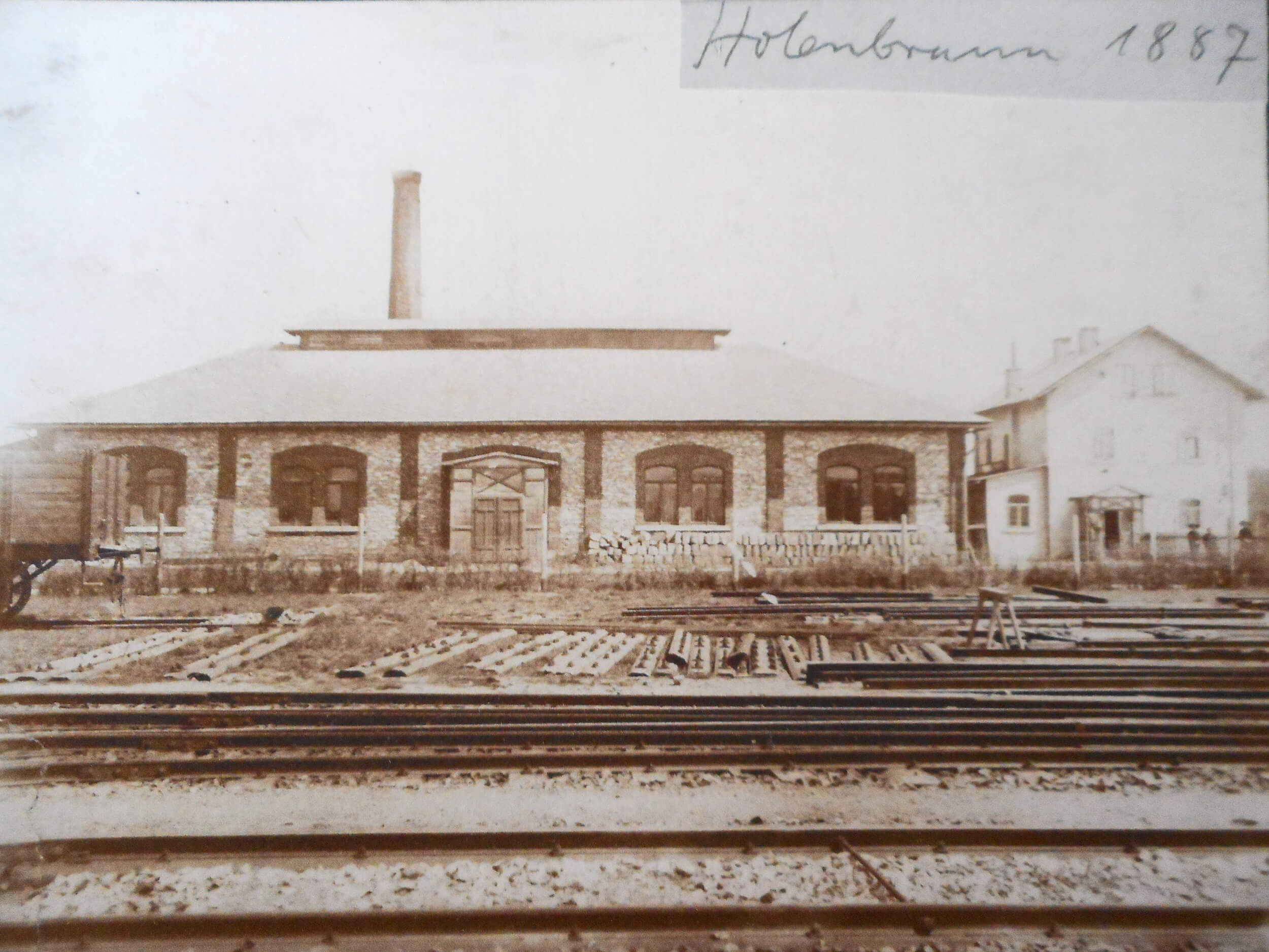 Photo of Glasfabrik LAMBERTS in 1887, the year of its foundation